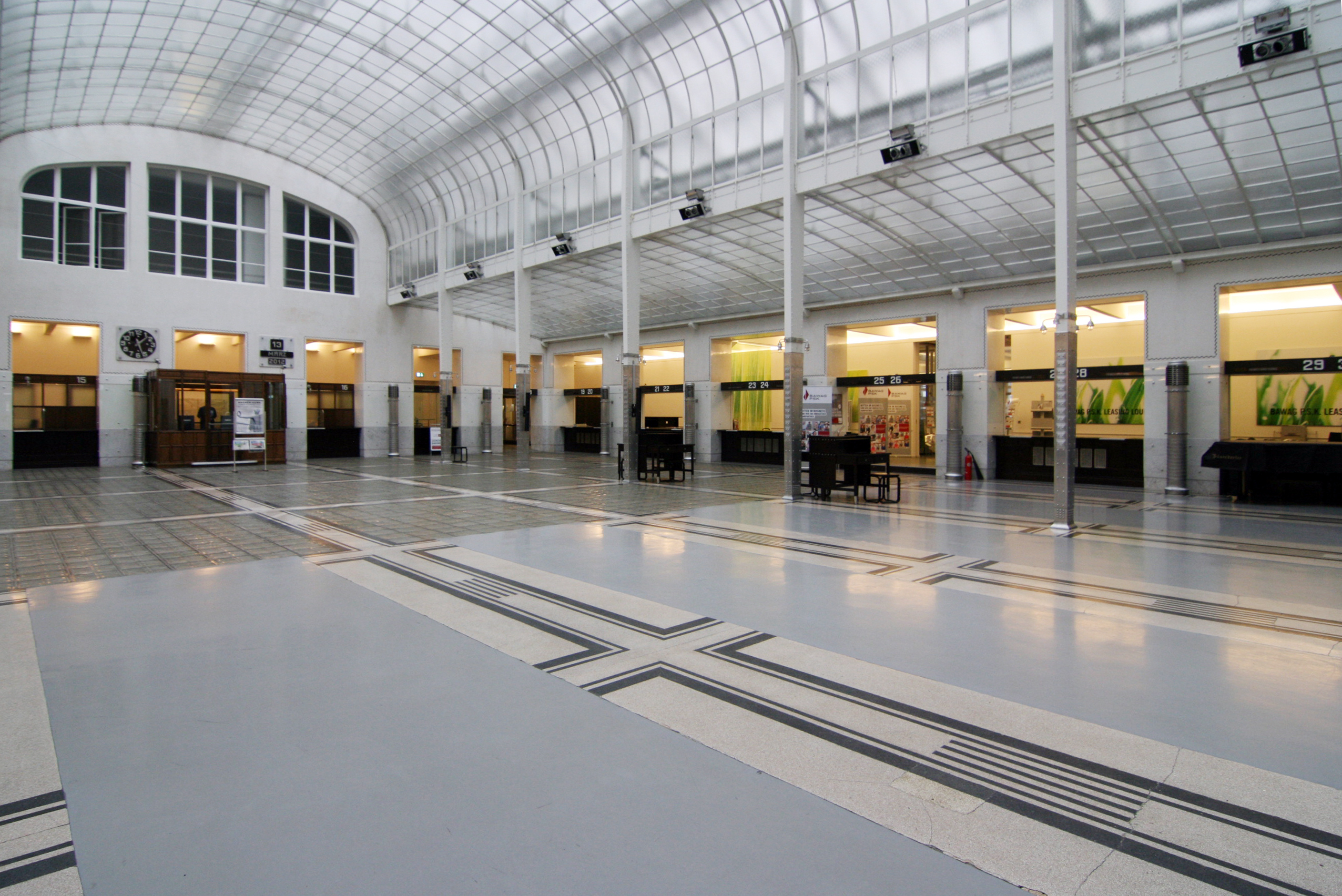 Interior of the Postsparkasse by Otto Wagner